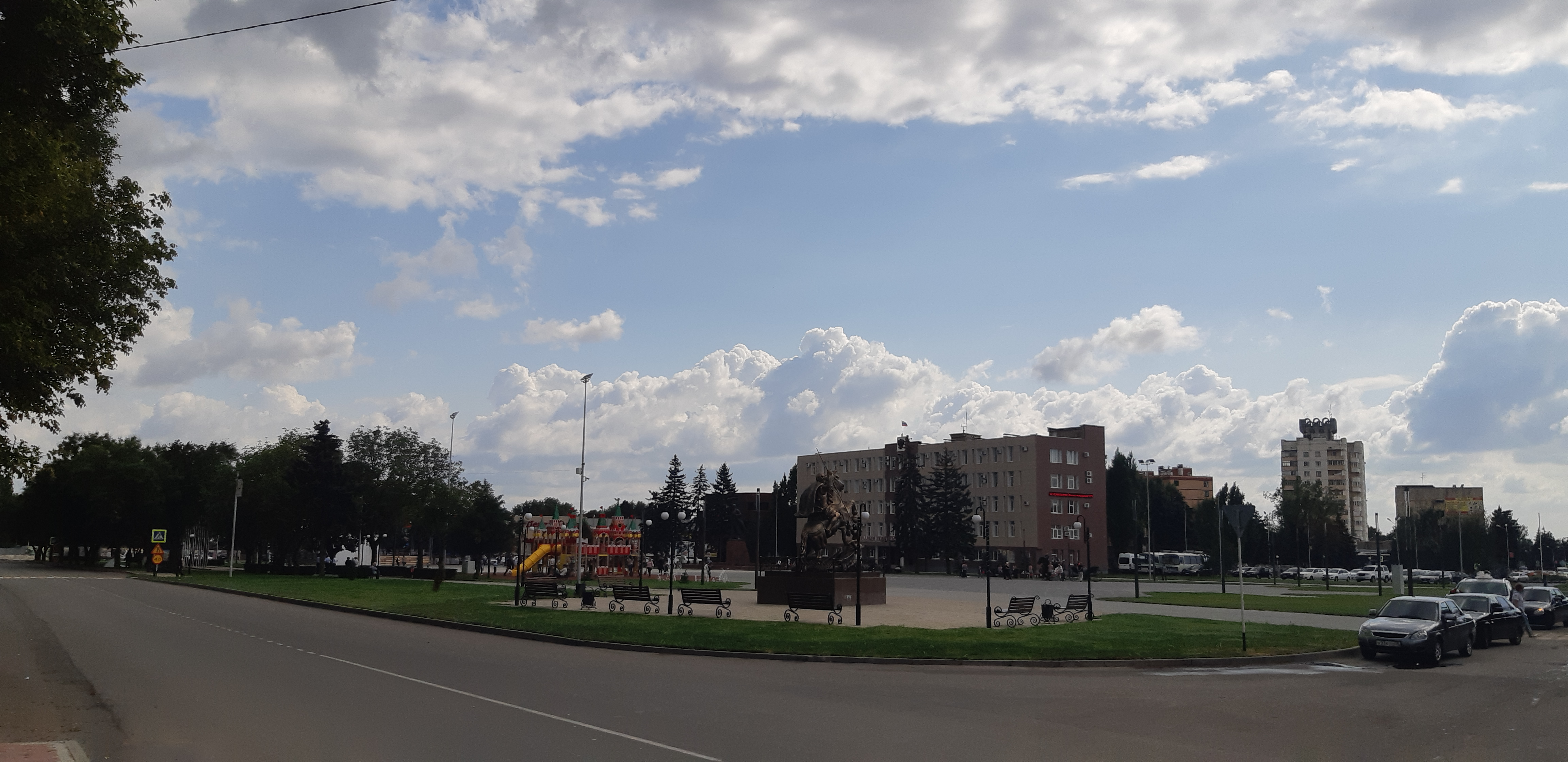 Center of Georgievsk